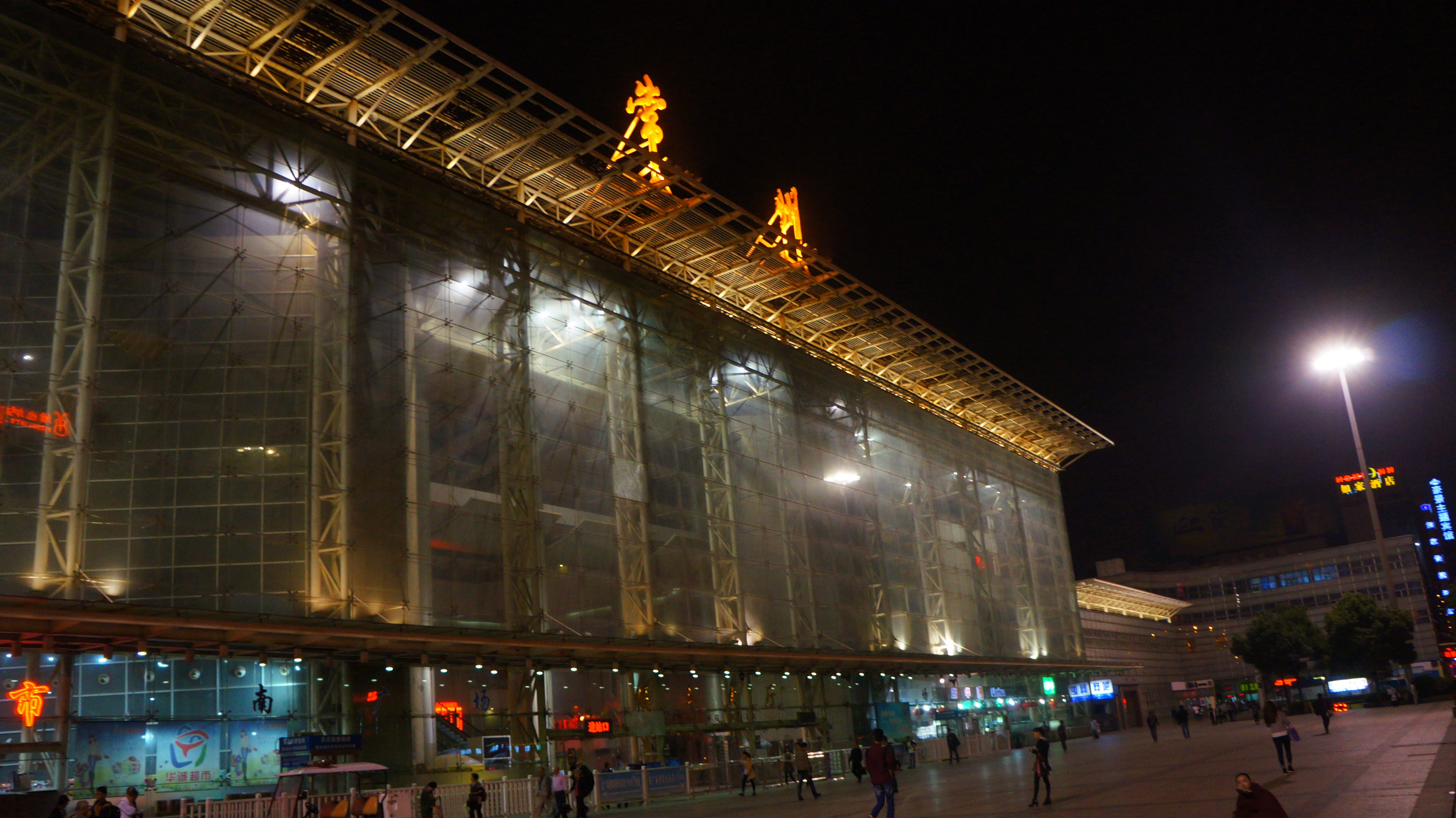 The facades of Changzhou Railway Station (South)